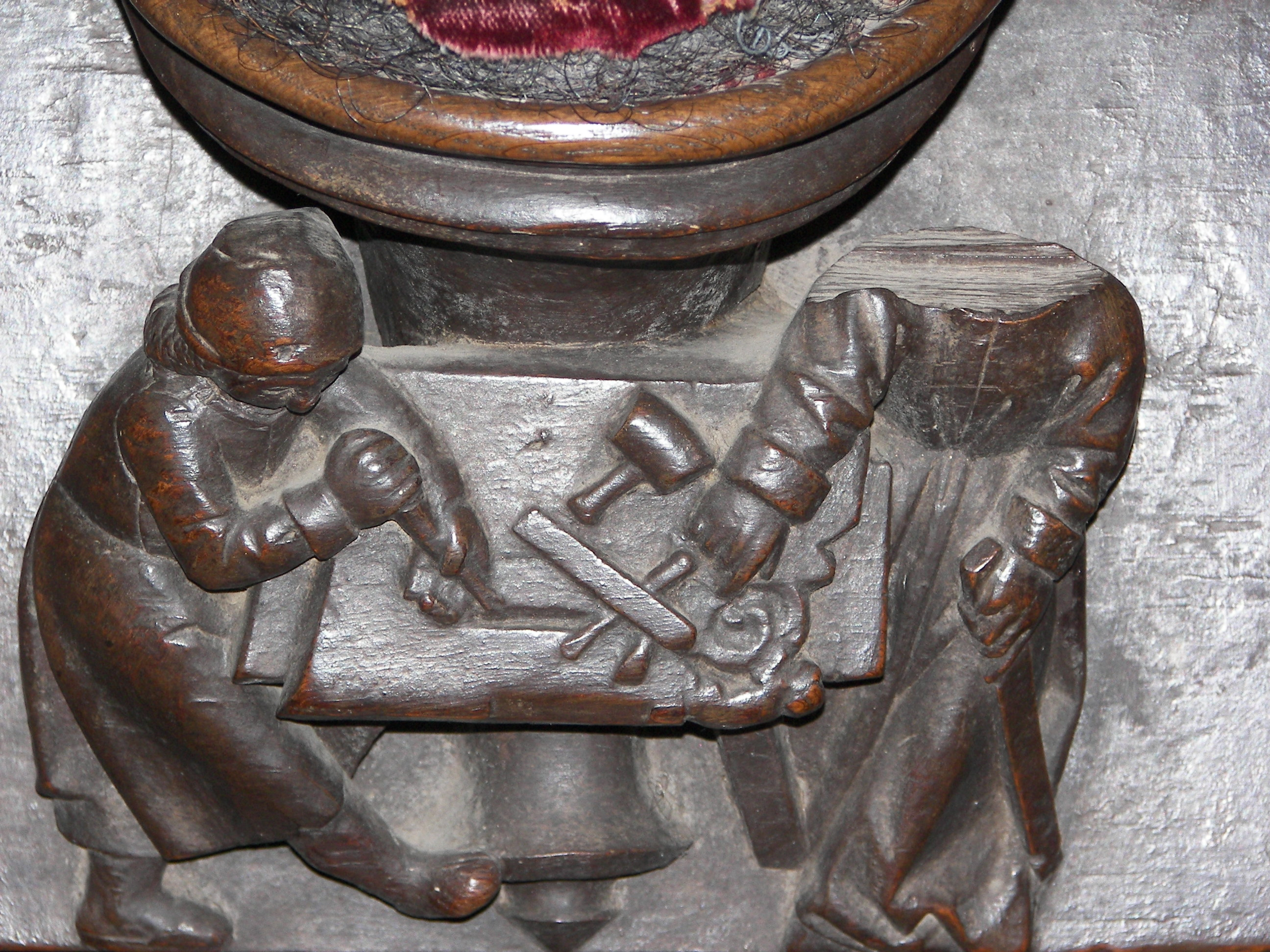 Misericord from L'Isle-Adam church (Val d'Oise) FRANCE